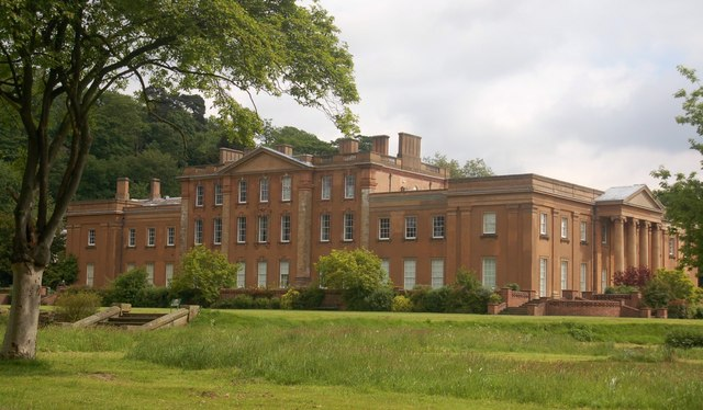 Country Seat. Home to the "Earl's of Dudley" since 1750, when a fire destroyed Dudley Castle. The seven centre window's are the original home, the wings were added at various dates spanning 80 year's. Sold in 1947 to the National Coal Board, along with 180 acres of land for the princely sum of 45,000 pounds.